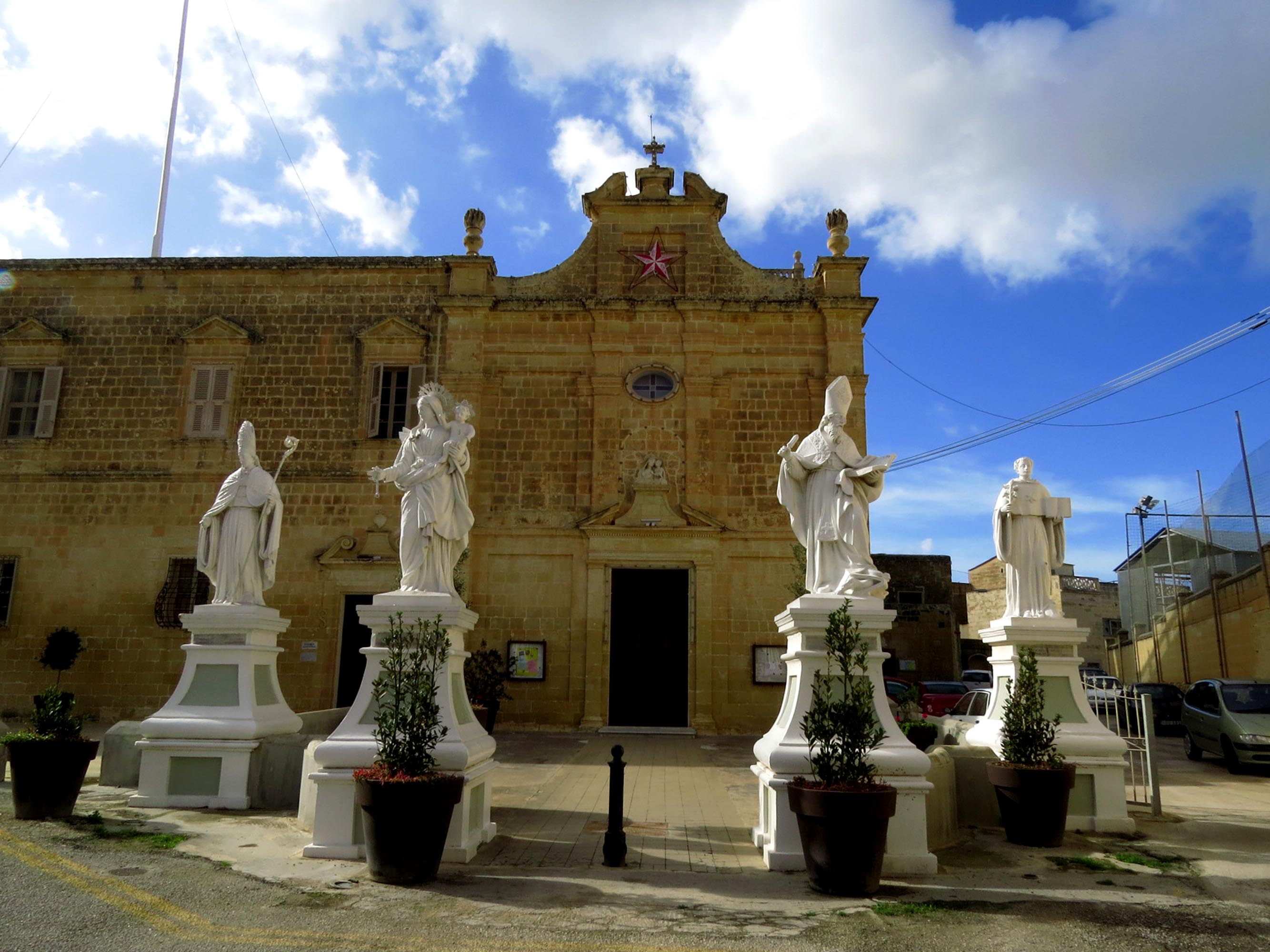 Church of St Augustine, Victoria Gozo Malti: Santu Wistin Church This media is about Maltese cultural property with inventory number 00877.